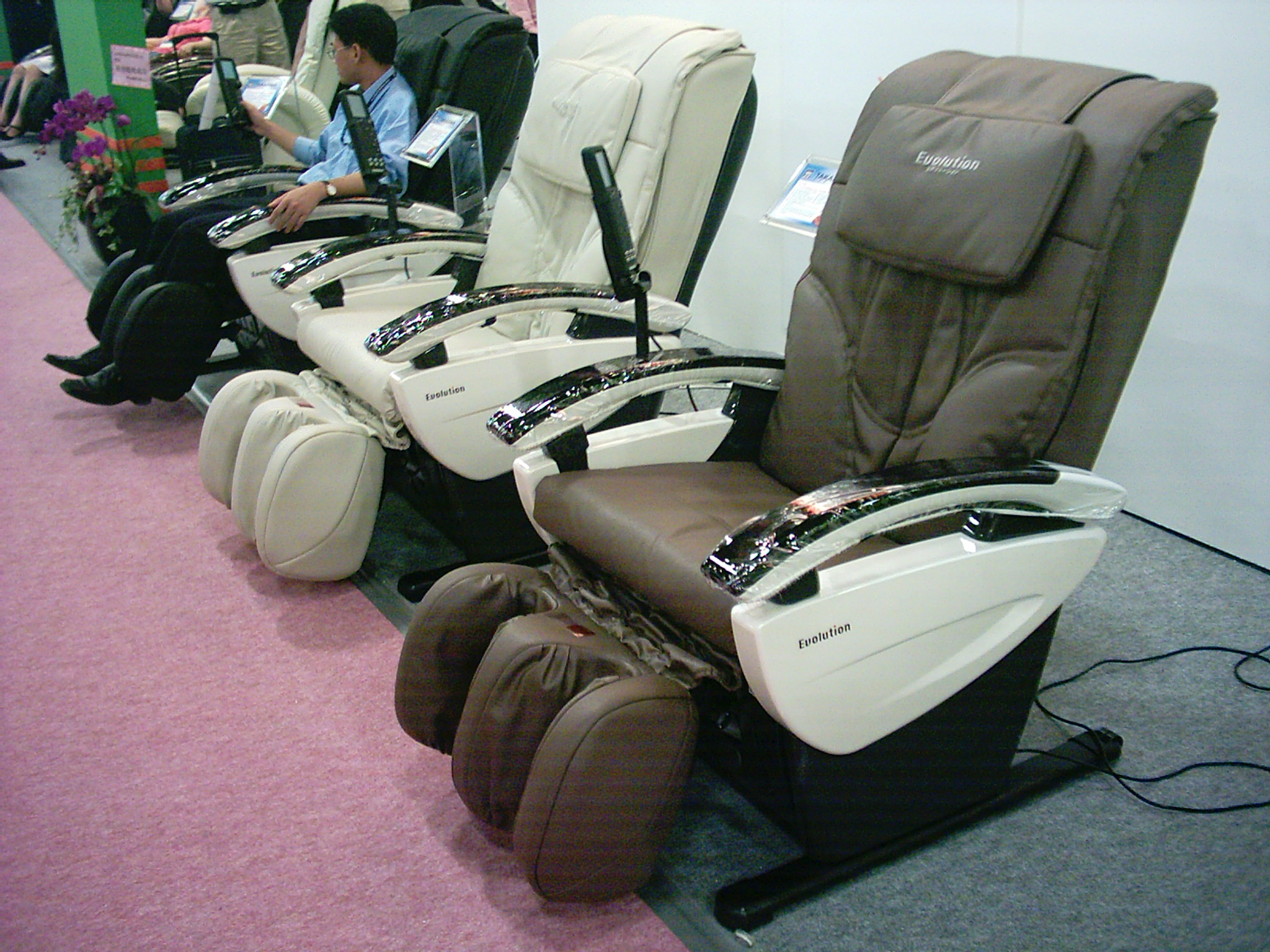 Takasima Evolution A-668 massage chair @ TaiSPO 2006, [1]